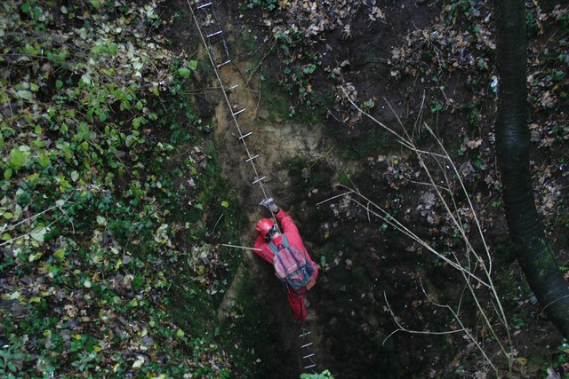 The denehole in Hangman's wood SSSI, Little Thurrock, Thurrock, Essex. The long climb out of a Dene hole after 4 hours underground monitoring bats.